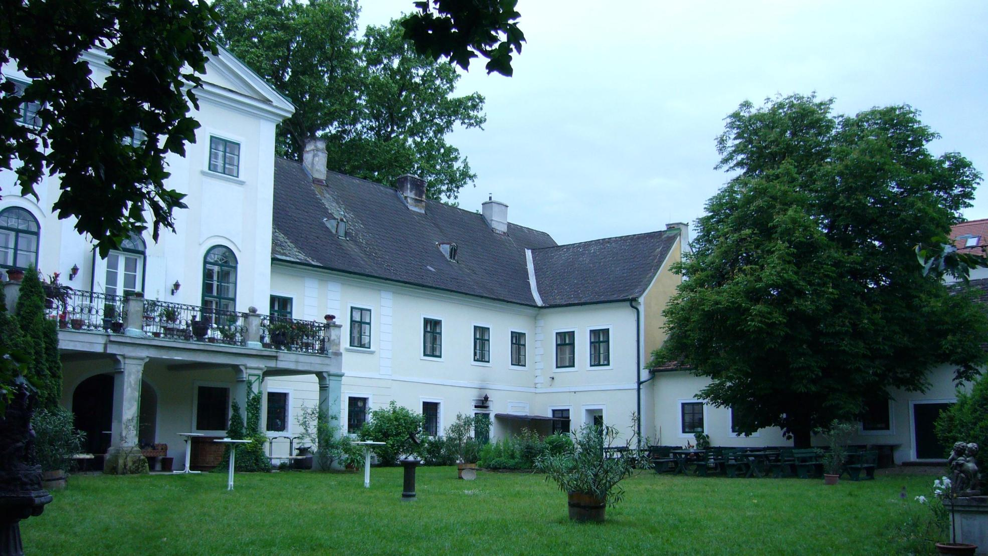 Palace in Potzneusiedl, Burgenland, Austria